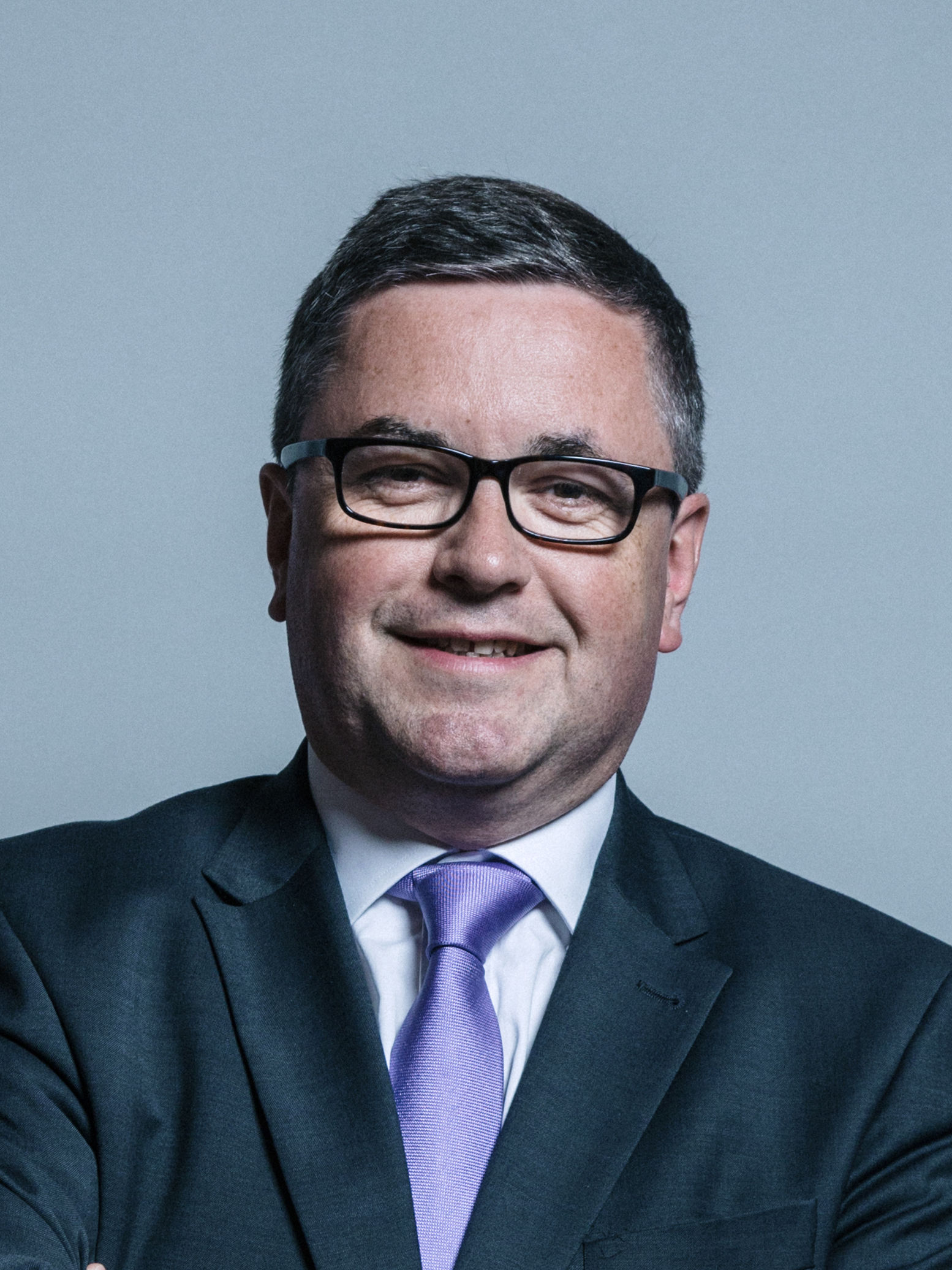 Official portrait of Robert Buckland